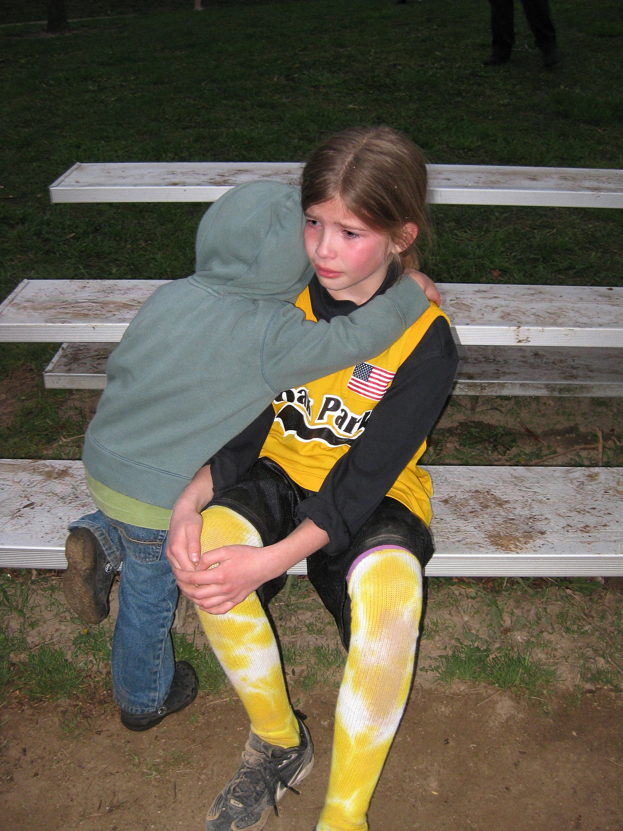 Meaghan got hurt sliding (sort of) into home. Finn gave her a hug. She was safe.